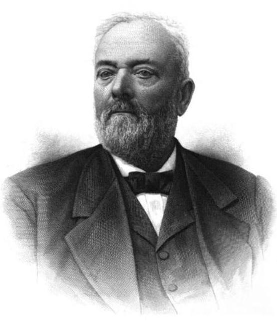 David Wilber, Congressman from New York